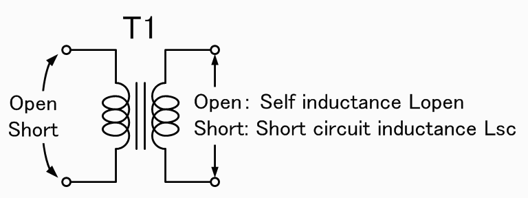 Measurement of the leakage inductance